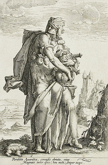 Avarice, Print, Engraving, 21.59 x 14.29 cm. Plate 6 from Matham's series The Vices. In the collection of the Los Angeles County Museum of Art.